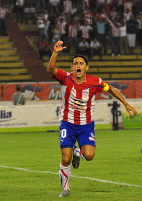 Giovanni Hernandez